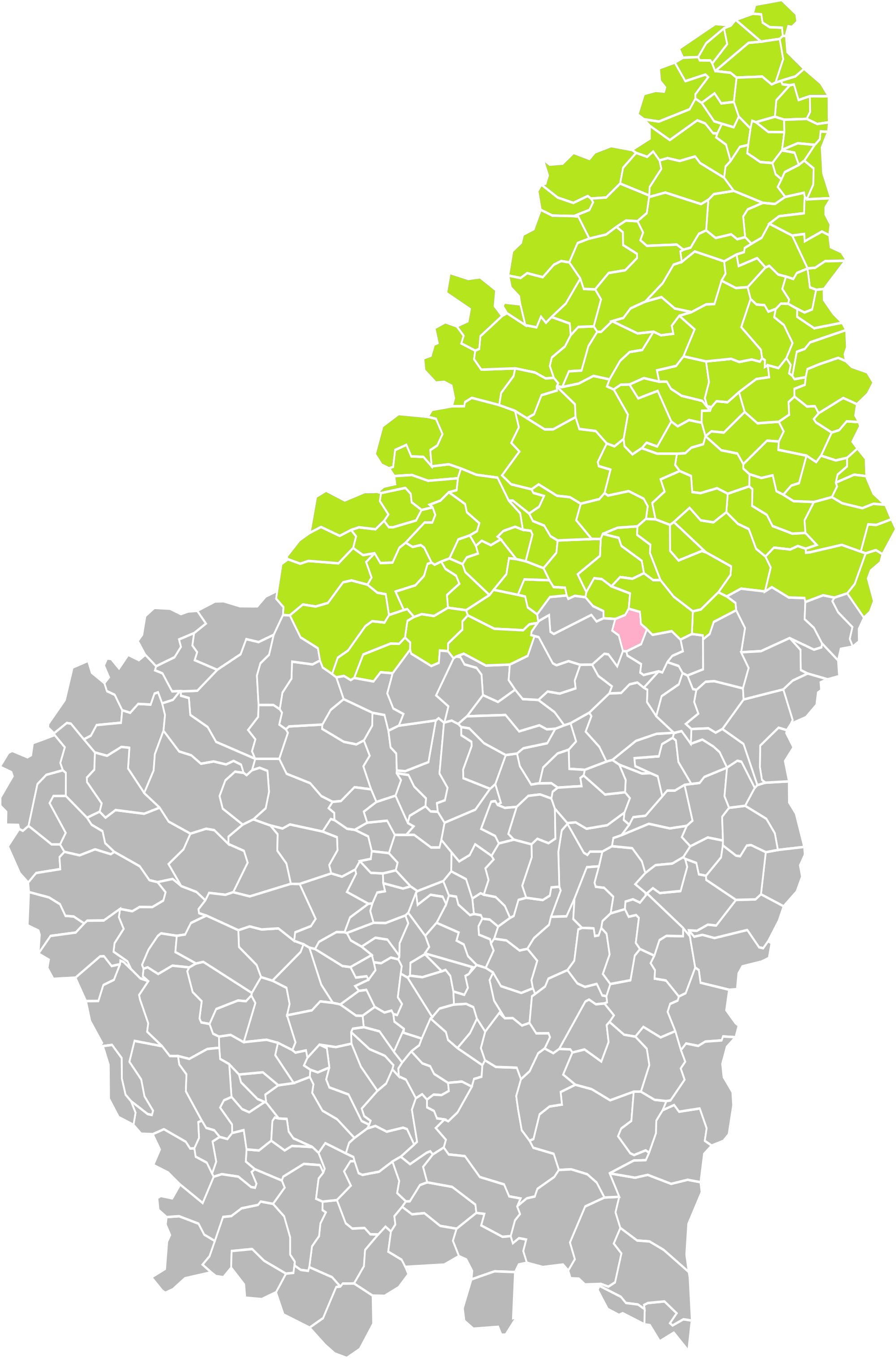 Location of the commune of Saint-Maurice-en-Chalencon in the arrondissement of Tournon-sur-Rhône (Ardèche)